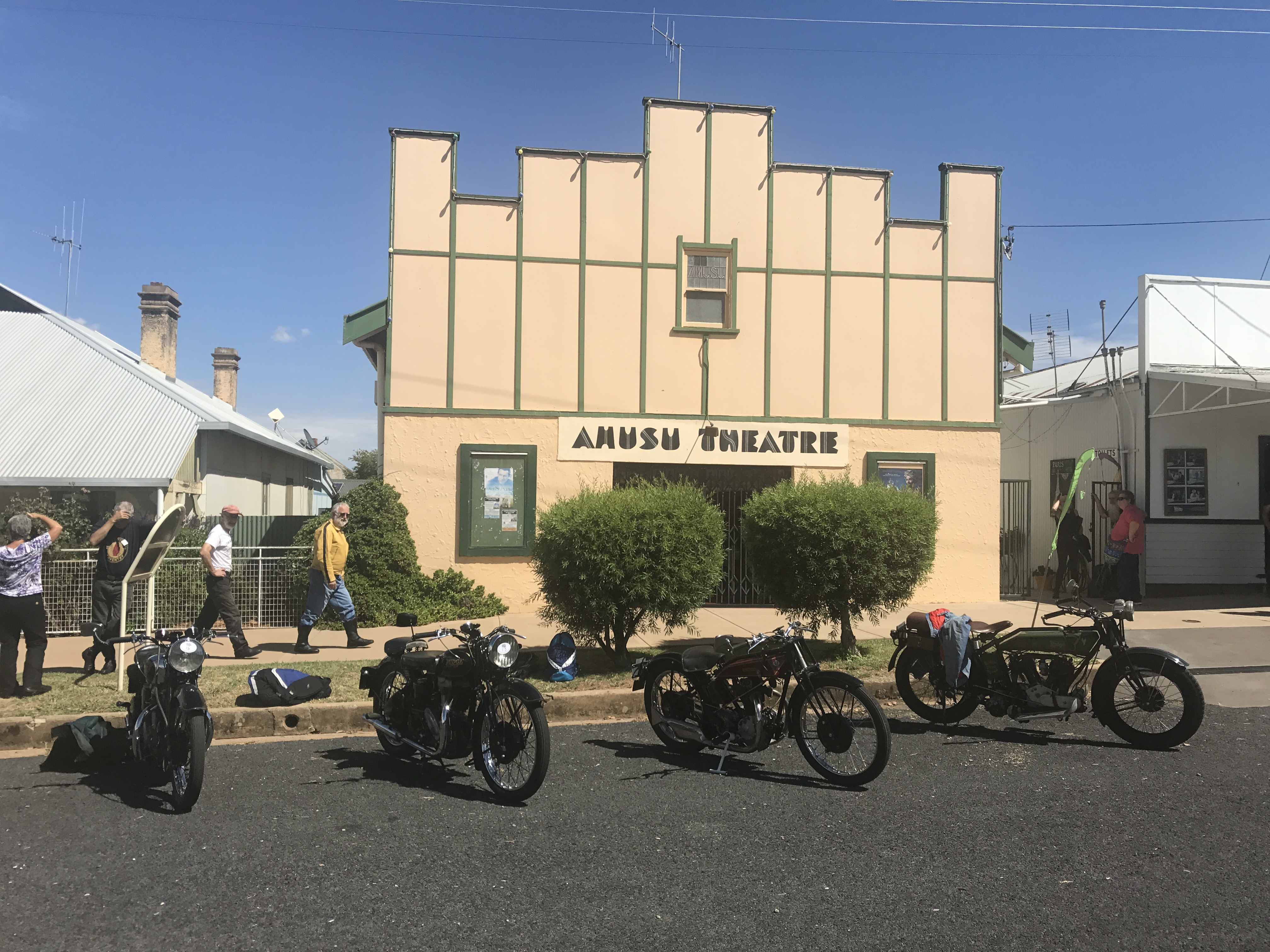 Visit to the Amusu Theatre, 17 Derowie Street, Manildra NSW Australia during the Australian Rudge Motor Cycle Club Rally on 03 March 2018.